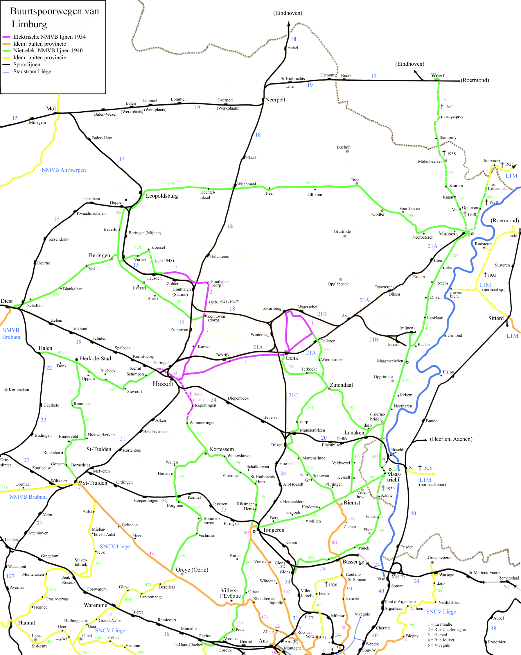 Map off the vicinal railways in the province off Limburg. Purple lines = electrified lines in 1954 Brown lines = idem, but outside the province Green lines = non-electrified lines in 1950 Yellow lines = idem, but outside the province Blue lines = Some lines off the Liege citytram Black lines = Railways (normal gauge)